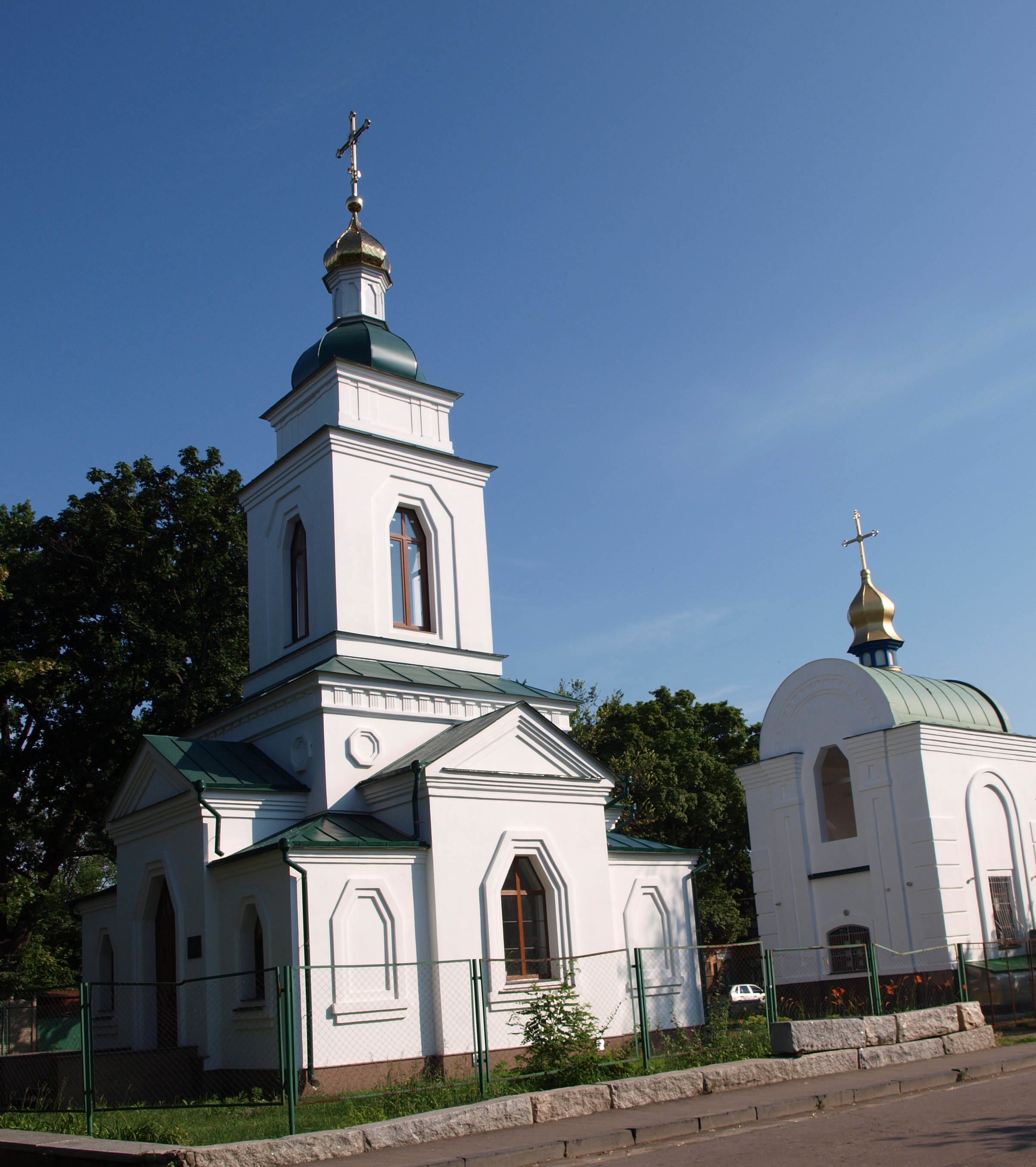 PoltavaSpasskayaChurch